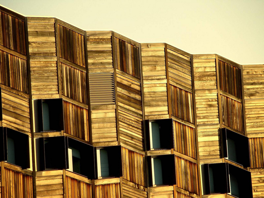 Textiles Centre at RMIT Brunswick